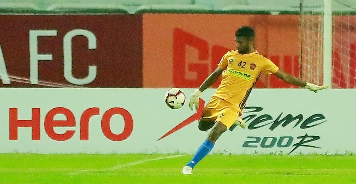 Shibinraj